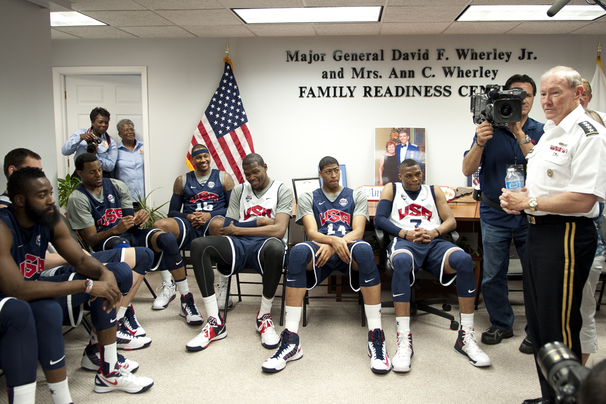 Chairman of the Joint Chiefs of Staff U.S. Army General Martin E. Dempsey speaks to the USA Men's Basketball Team before Hoops for Troops in Washington, D.C. on July 14, 2012. DOD photo by U.S. Army Staff Sgt. Sun L. Vega.